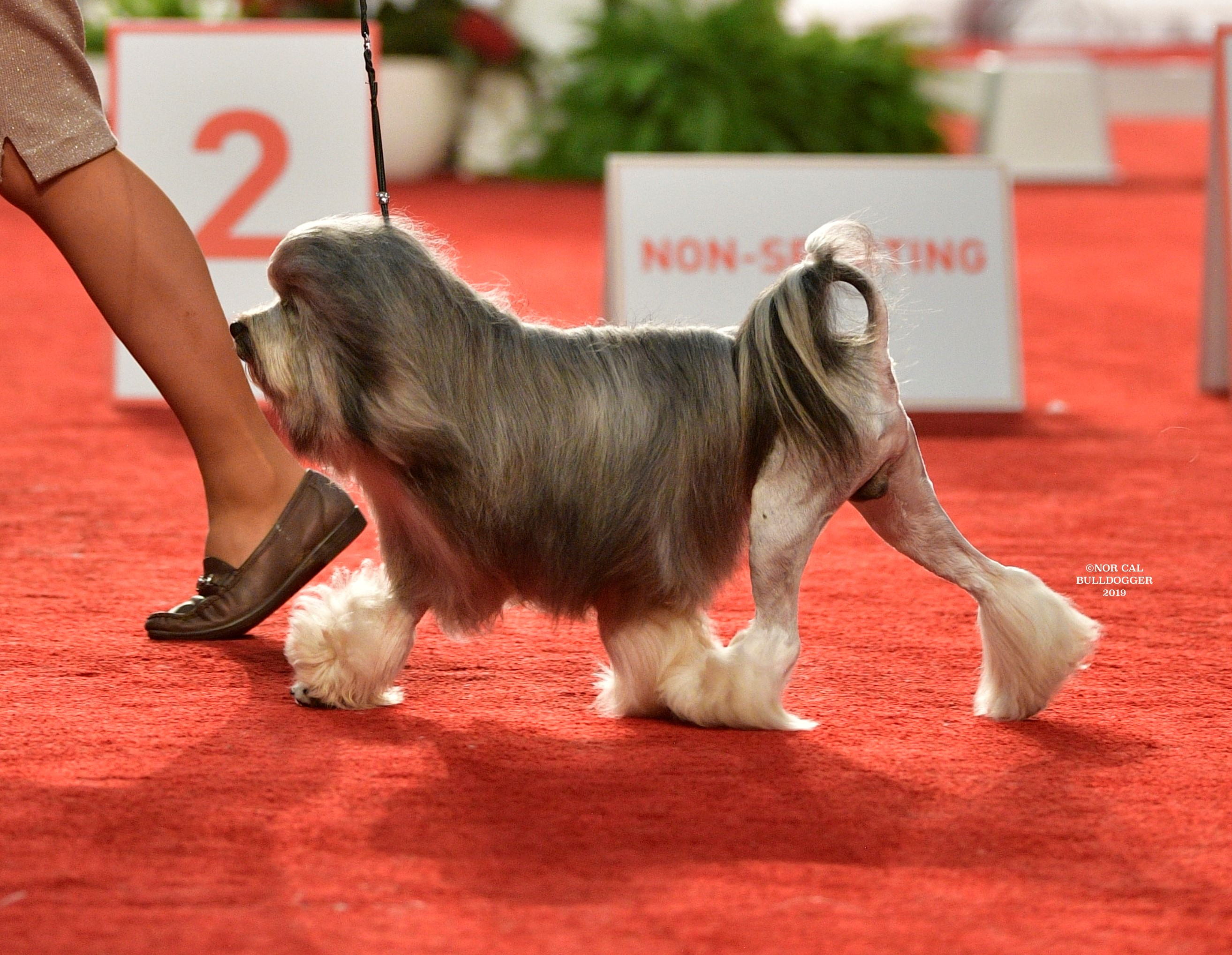 Adult Lowchen Gaiting